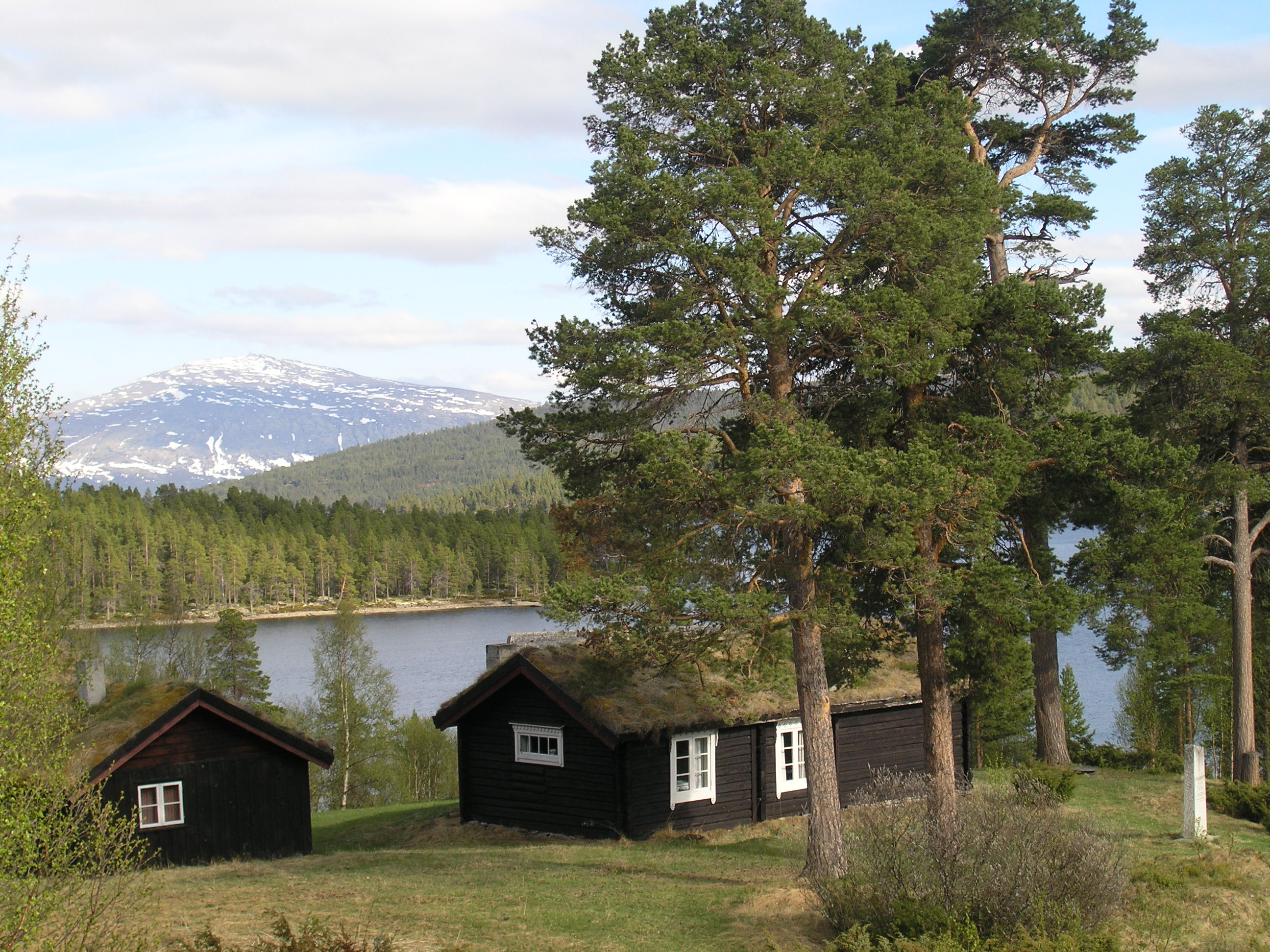 Arne and Hulda Garborg's home from 1885 to 1896.